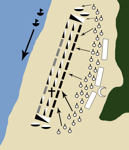 Another map of Battle of Arsuf